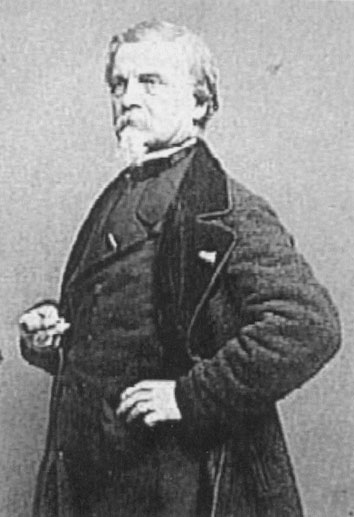 Photograph of French painter Claudius Jacquand (1803-1878)